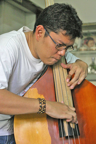 A Czech-made double bass played by an Indonesian jazz bassist Rudy Zulkarnaen